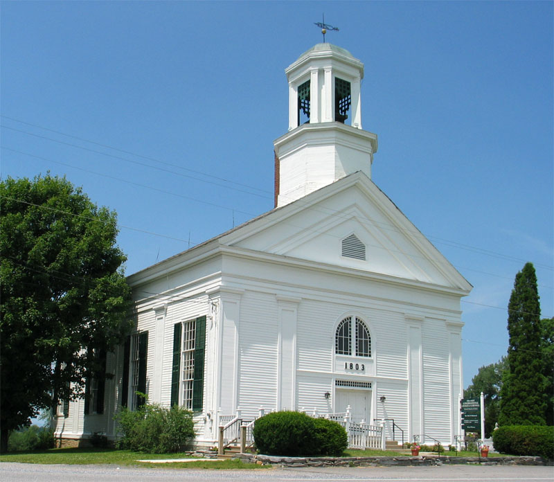 Description: Photograph of the Cornwall Congregational Church in Cornwall, Vermont Source: Photograph taken by Jared C. Benedict on 04 July 2004. Copyright: © Jared C. Benedict.